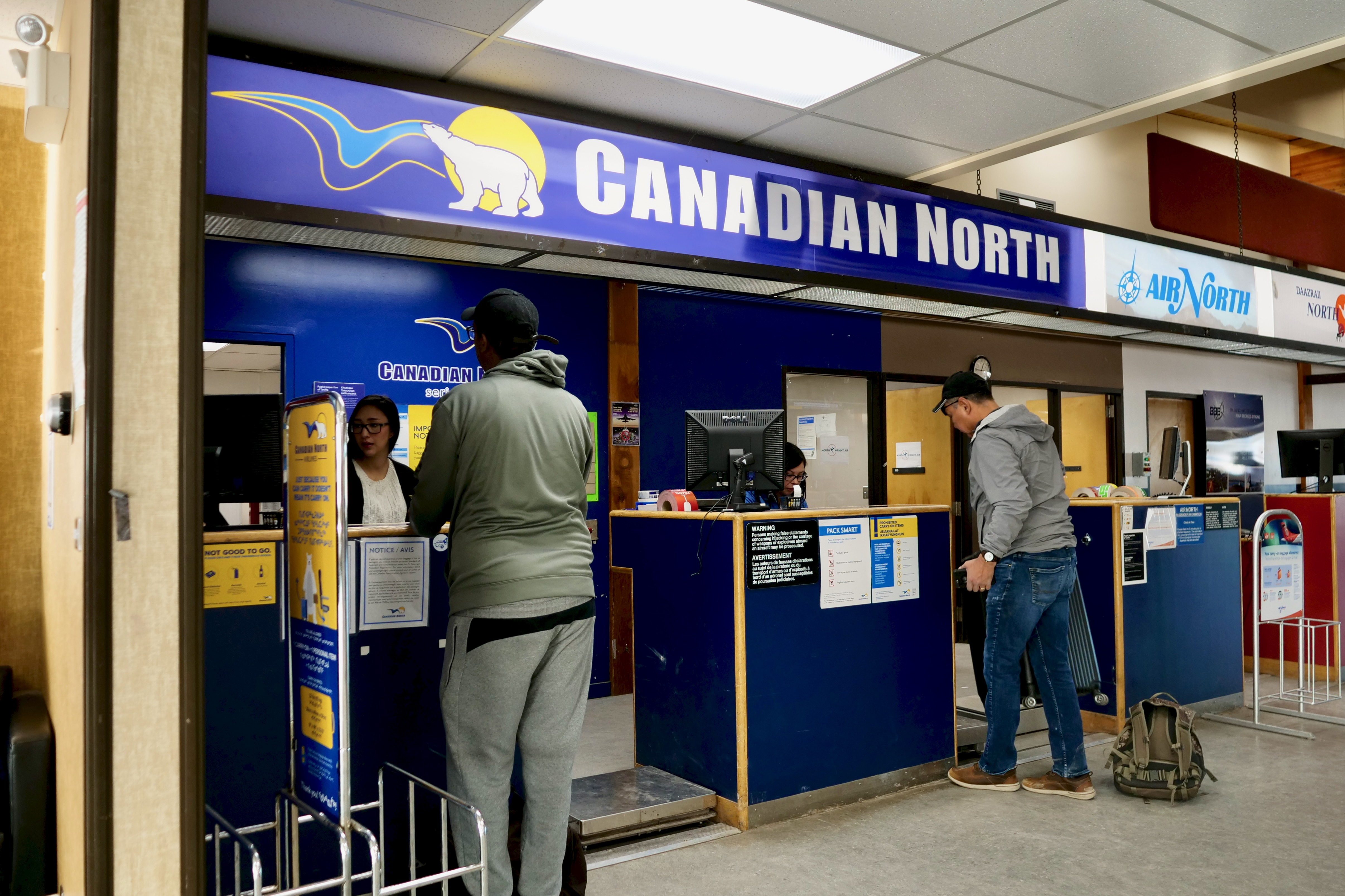 Canadian North check-in counter in Inuvik.